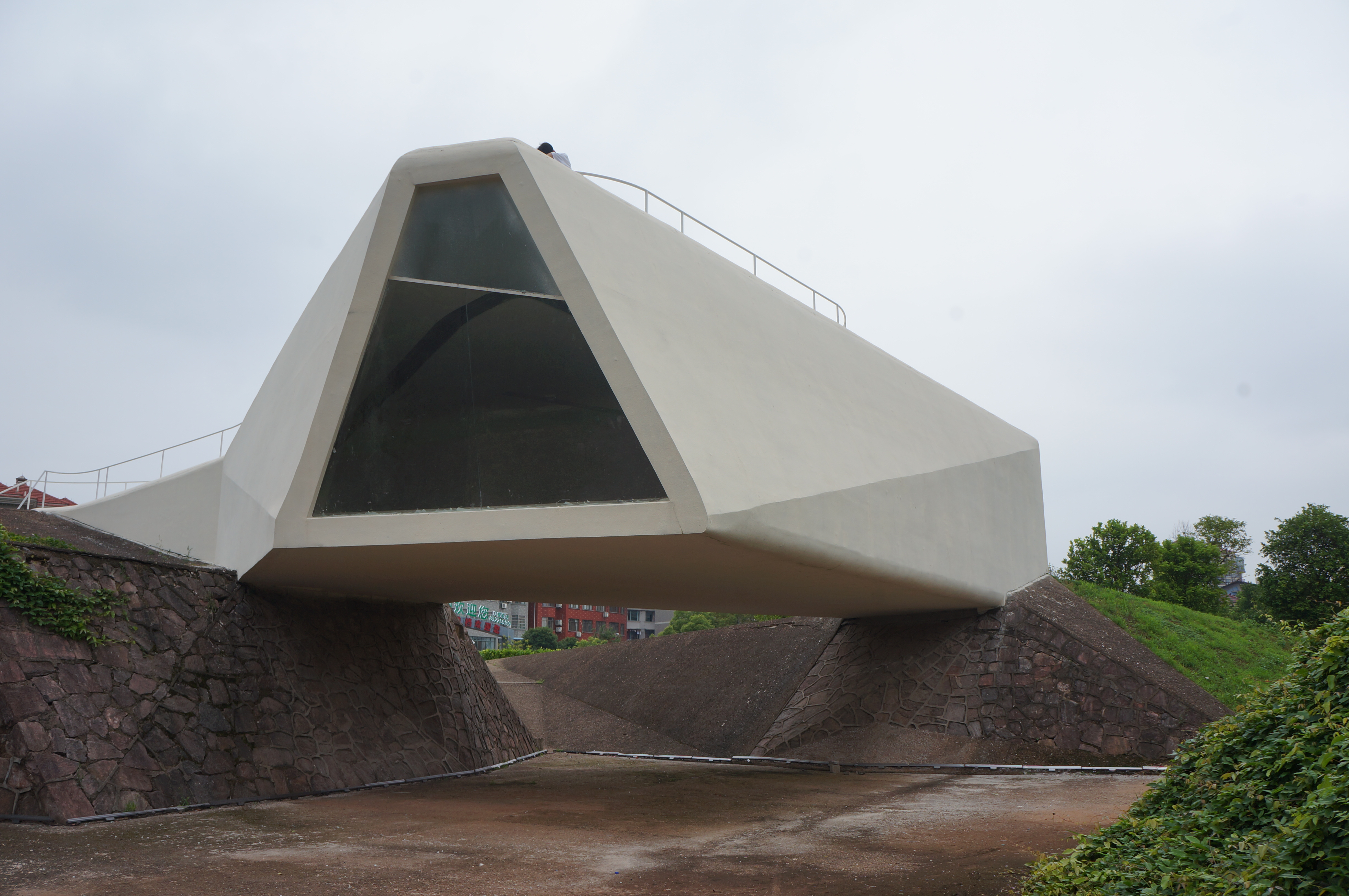 201805 The Exhibition Room at Jinhua Architecture Park